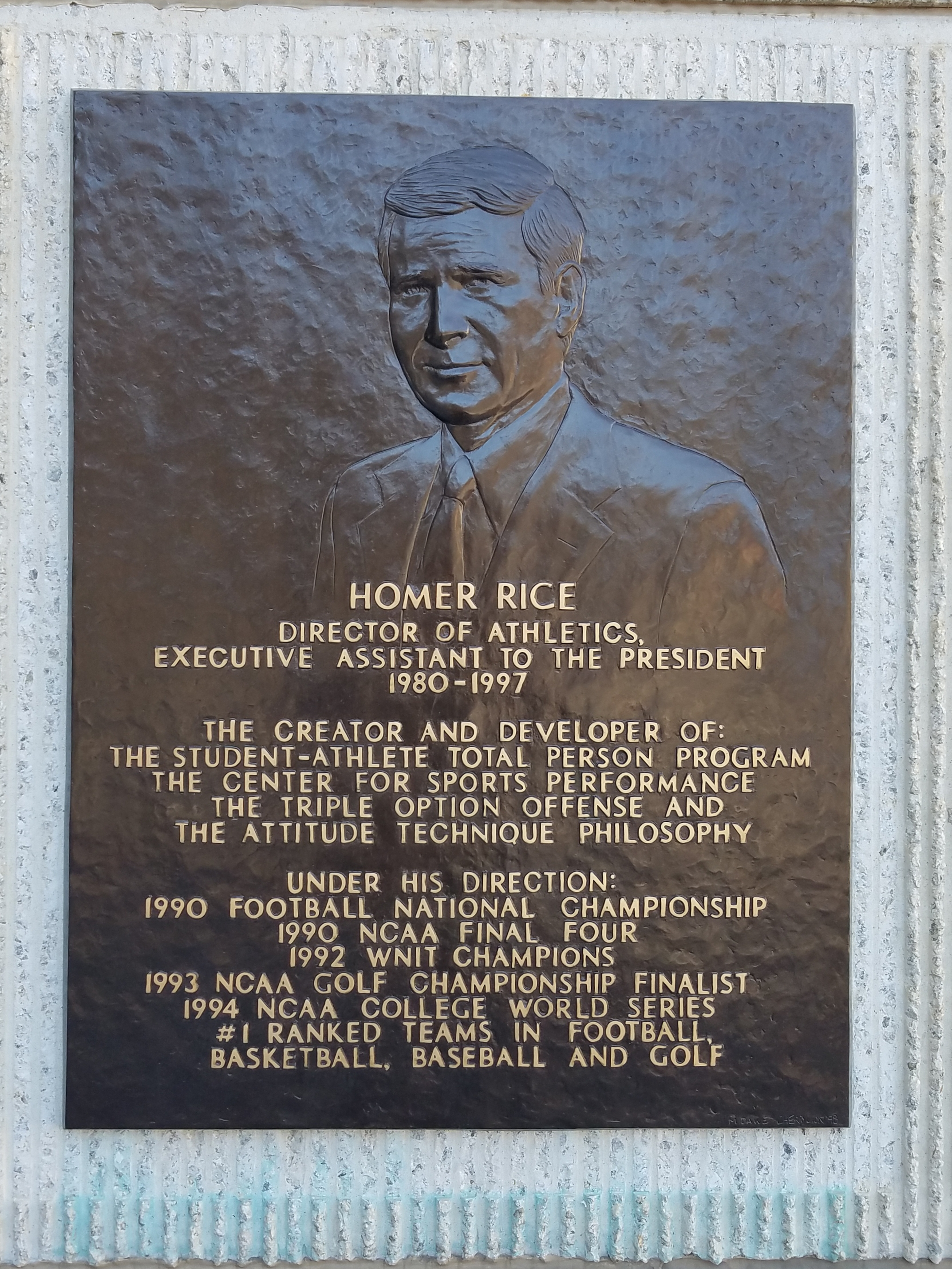 Homer Rice plaque at the Edge Athletic Center at Georgia Tech.